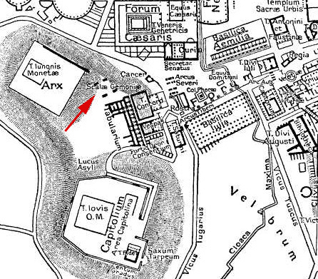 Partial Map of downtown Rome during the Roman Empire large with scalae Gemoniae marked